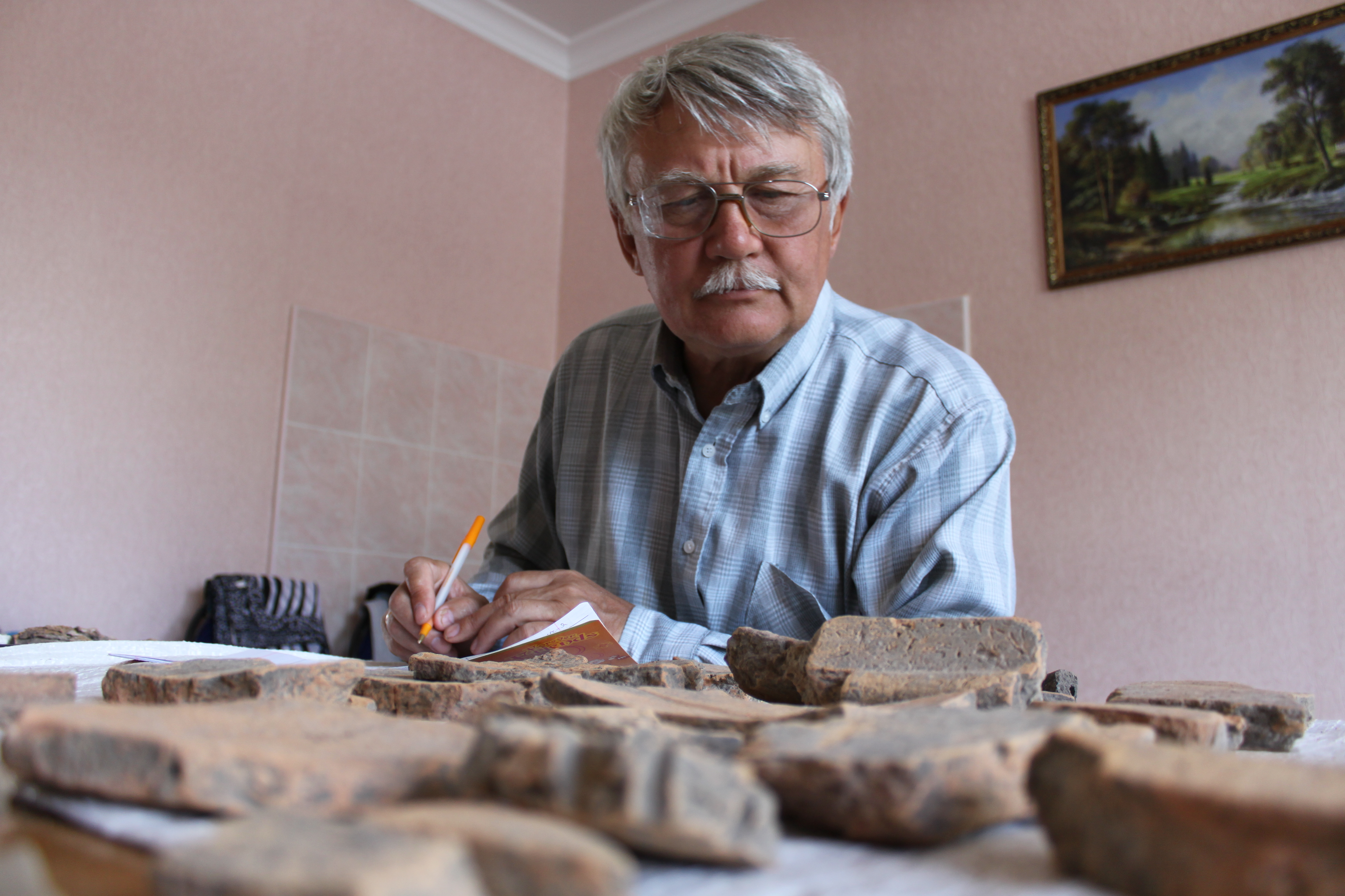 A..D.Rezepkin(А.Д.Резепкин) in Ust-Jeguta in 2013. Shifruet artefacts bronzovogo veka